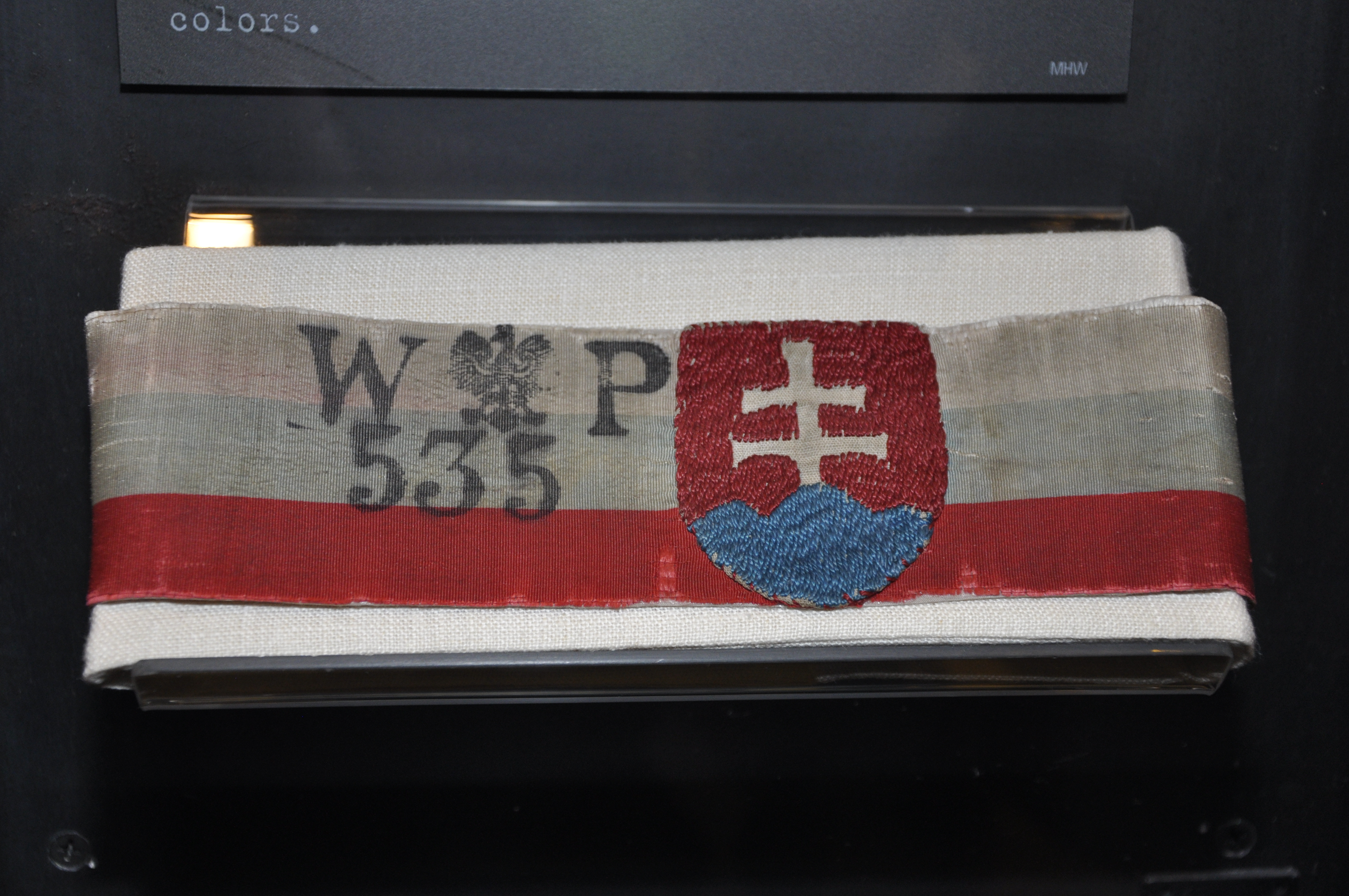 Display at the Warsaw Rising Museum